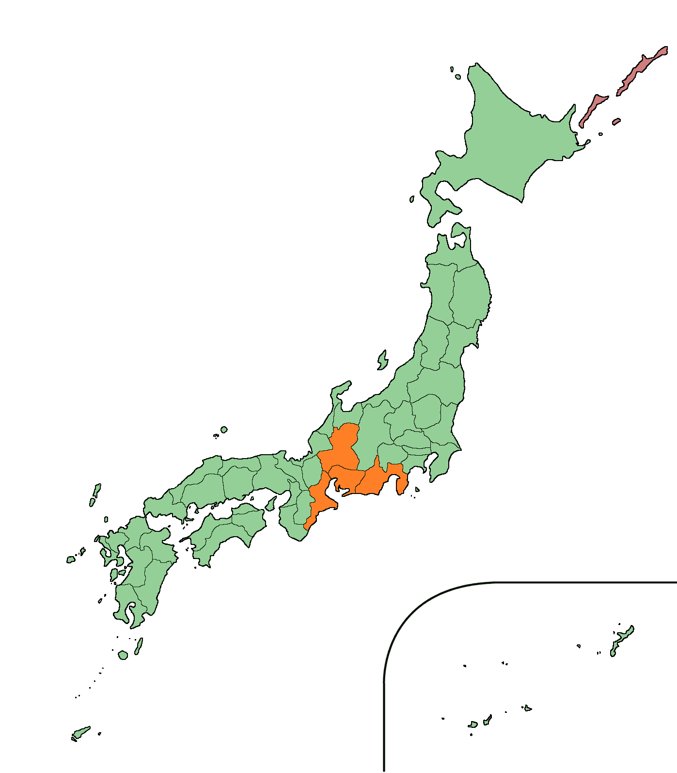 Large size map of Japan with Tōkai region highlighted.